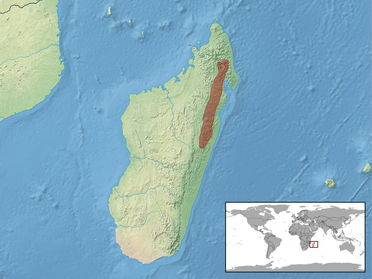 geographic distribution of Brookesia therezieni (Native: Madagascar)